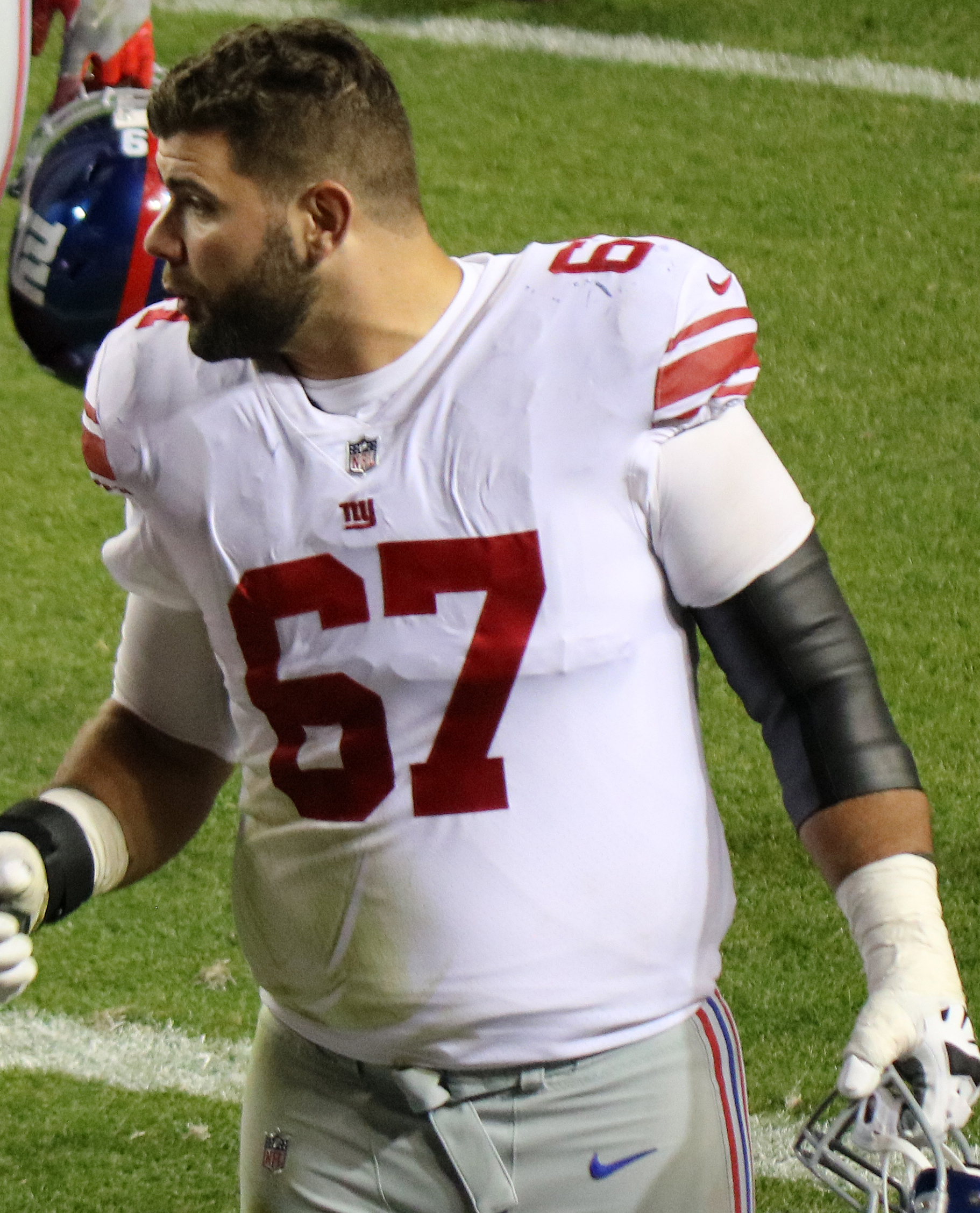 Justin Pugh, a player on the National Football League.